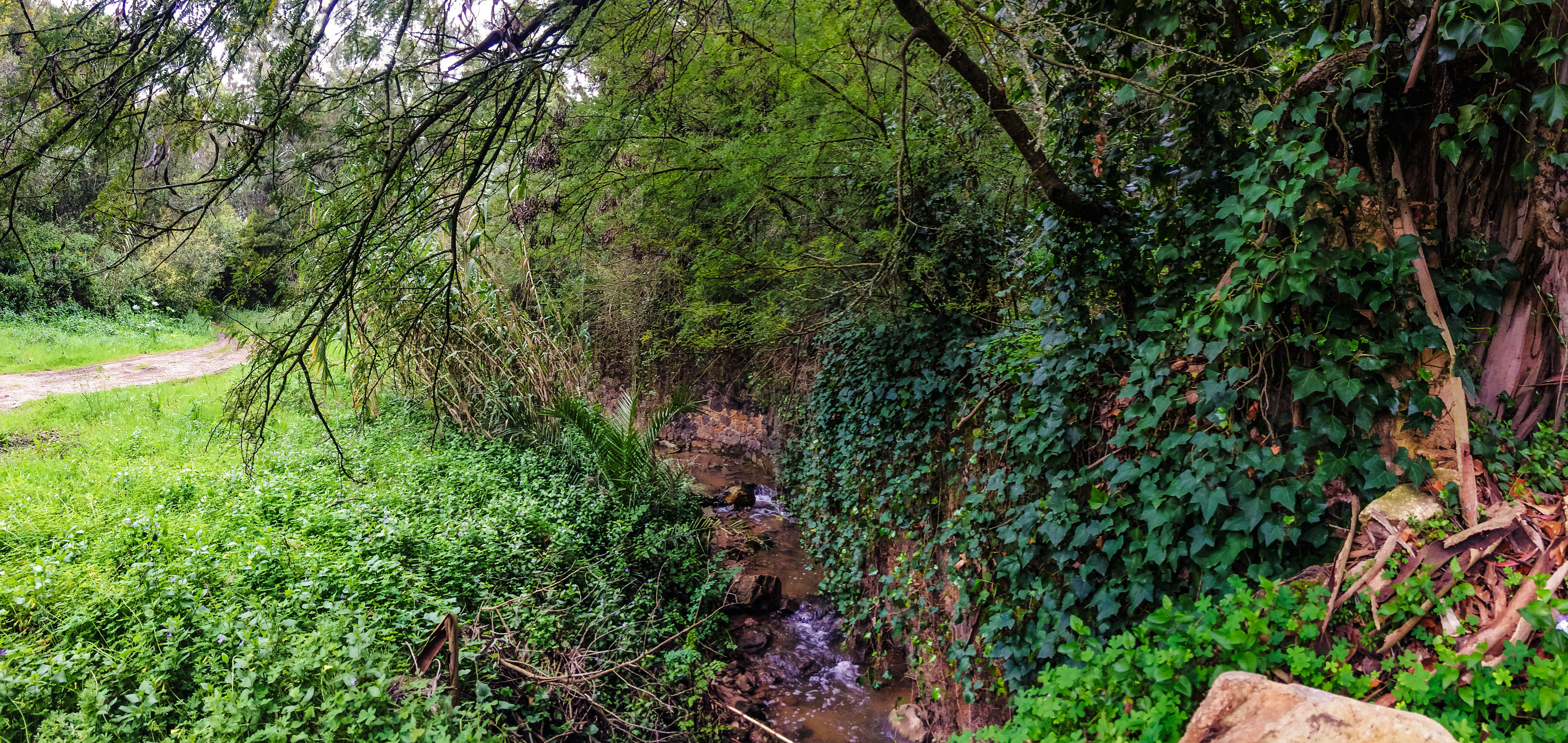 Leito e margens da ribeira.